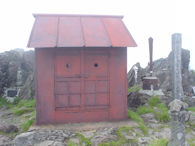 A shrine at Mount Hayachine